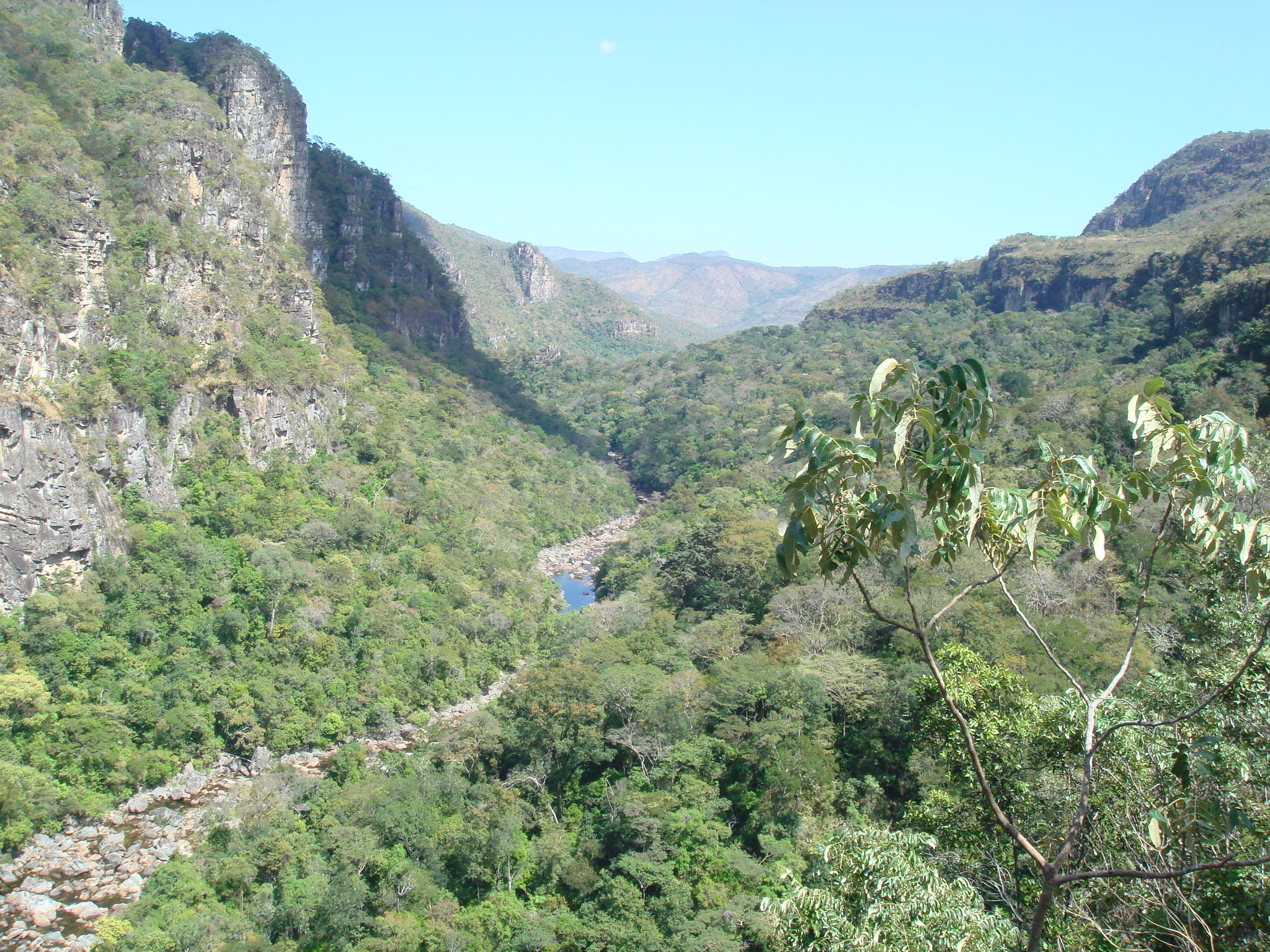 River in Chapada dos Veadeiros (Cerrado vegetation) in São Jorge, Goias, Brazil.